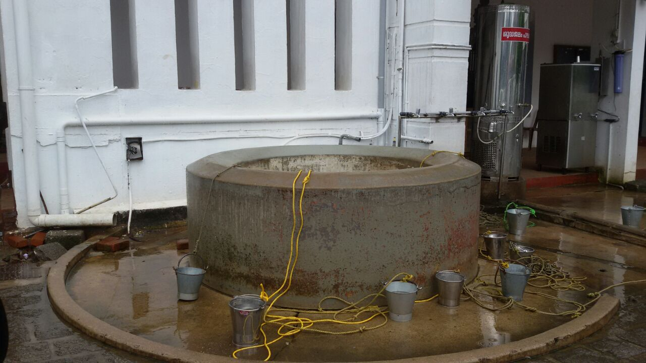 St. George's Church well